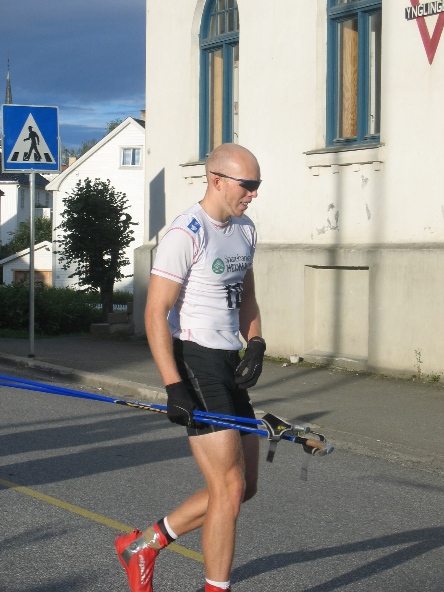 The Norwegian cross-country skier Tommy Åsen under Kirkebakken Grand Prix 2007 in Hamar, Norway.